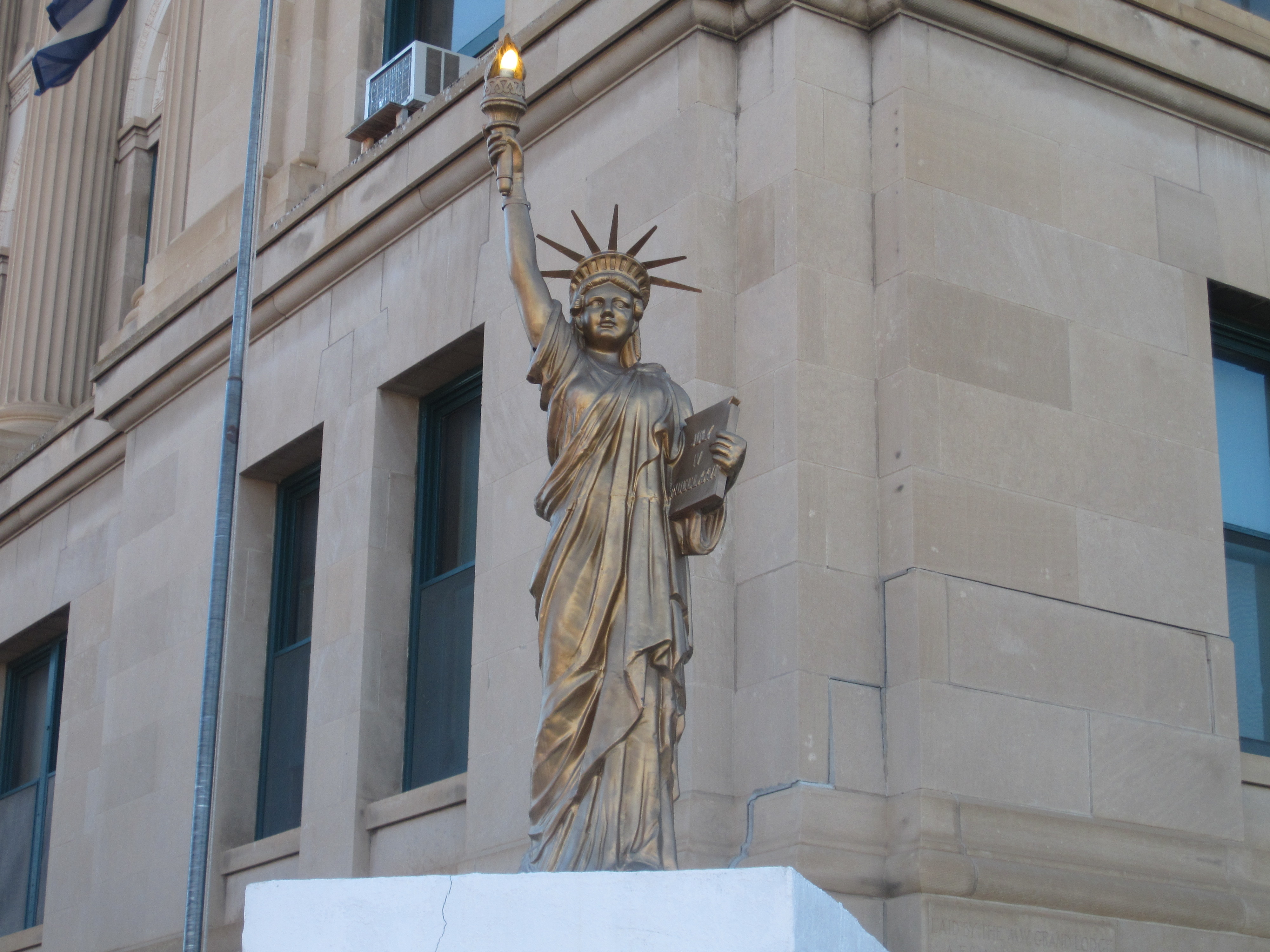 I took photo with Canon camera in Trinidad, CO.